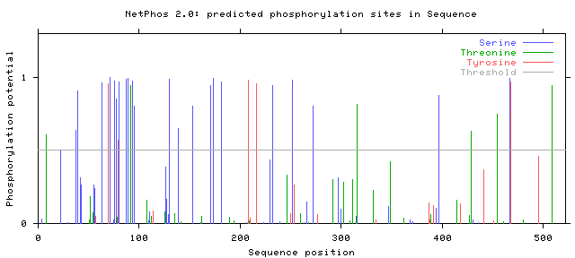 Phosphorylation sites of KIAA0895 protein